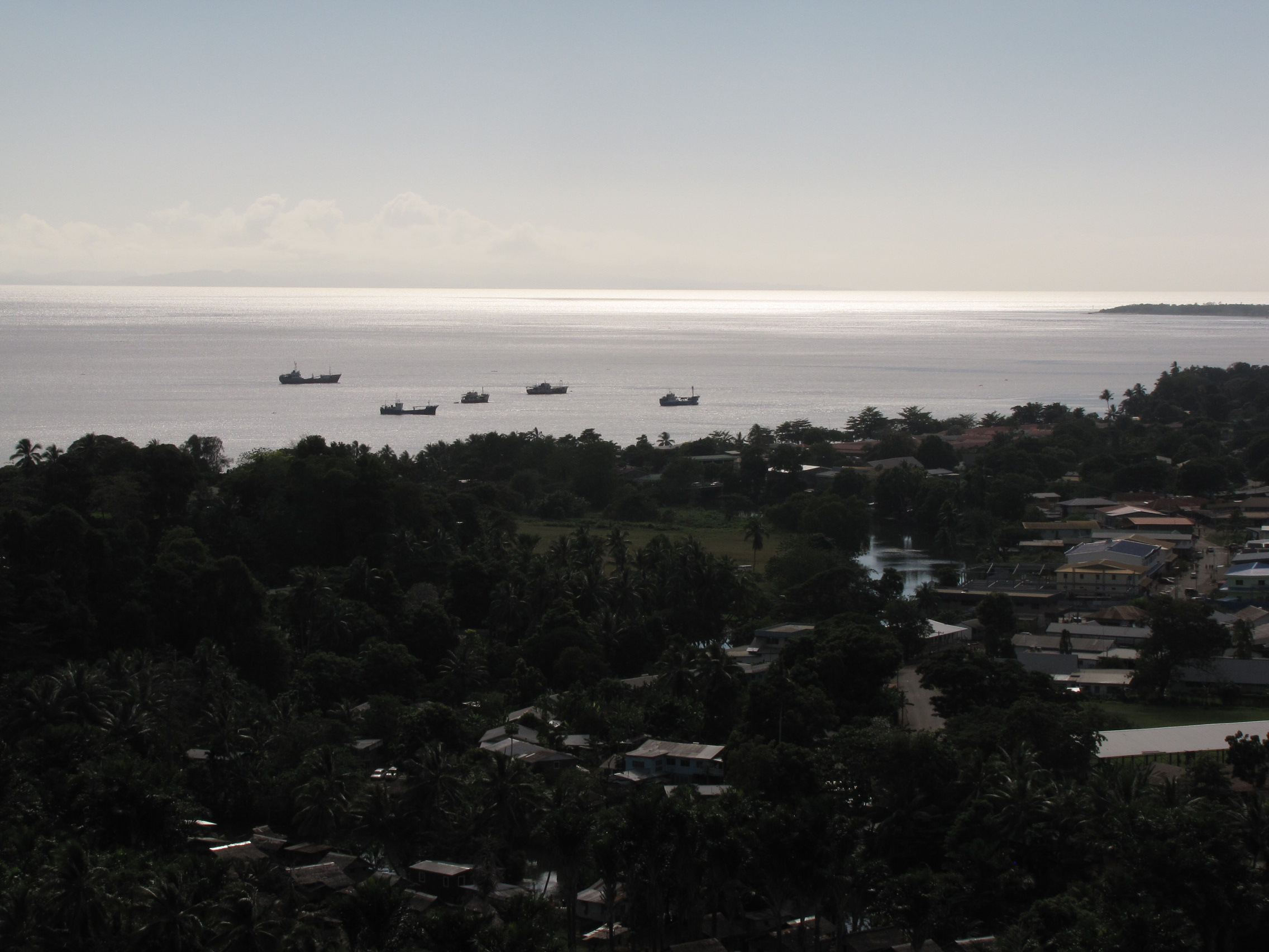 Honiara, Solomon Islands